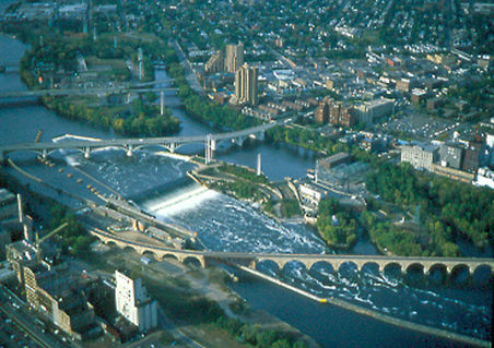 Aerial view of Saint Anthony Falls on the Mississippi River in Minneapolis, Minnesota. From Image URL The crossings of the river, starting from the top, are A rail link operated by BNSF Railway Hennepin/First Avenue Bridge (road) Third/Central Avenue Bridge (road) Stone Arch Bridge (pedestrian/bicycle) Downtown Minneapolis is off the image to the left. A second lock and dam complex is off the image's lower right. Category:Images of Minneapolis, Minnesota Category:Images of Minnesota